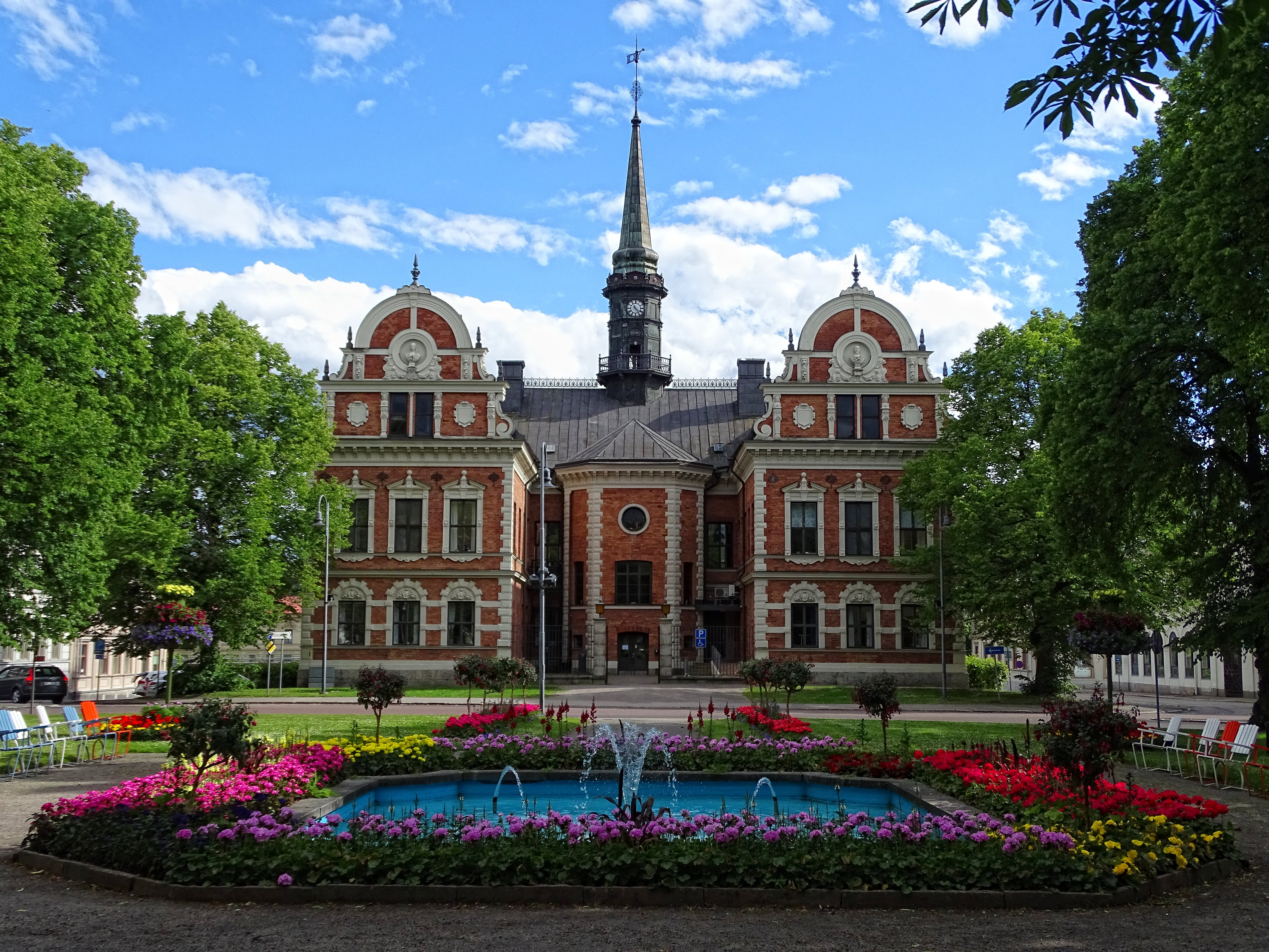 Söderhamn's city hall as seen from the park just north of it.